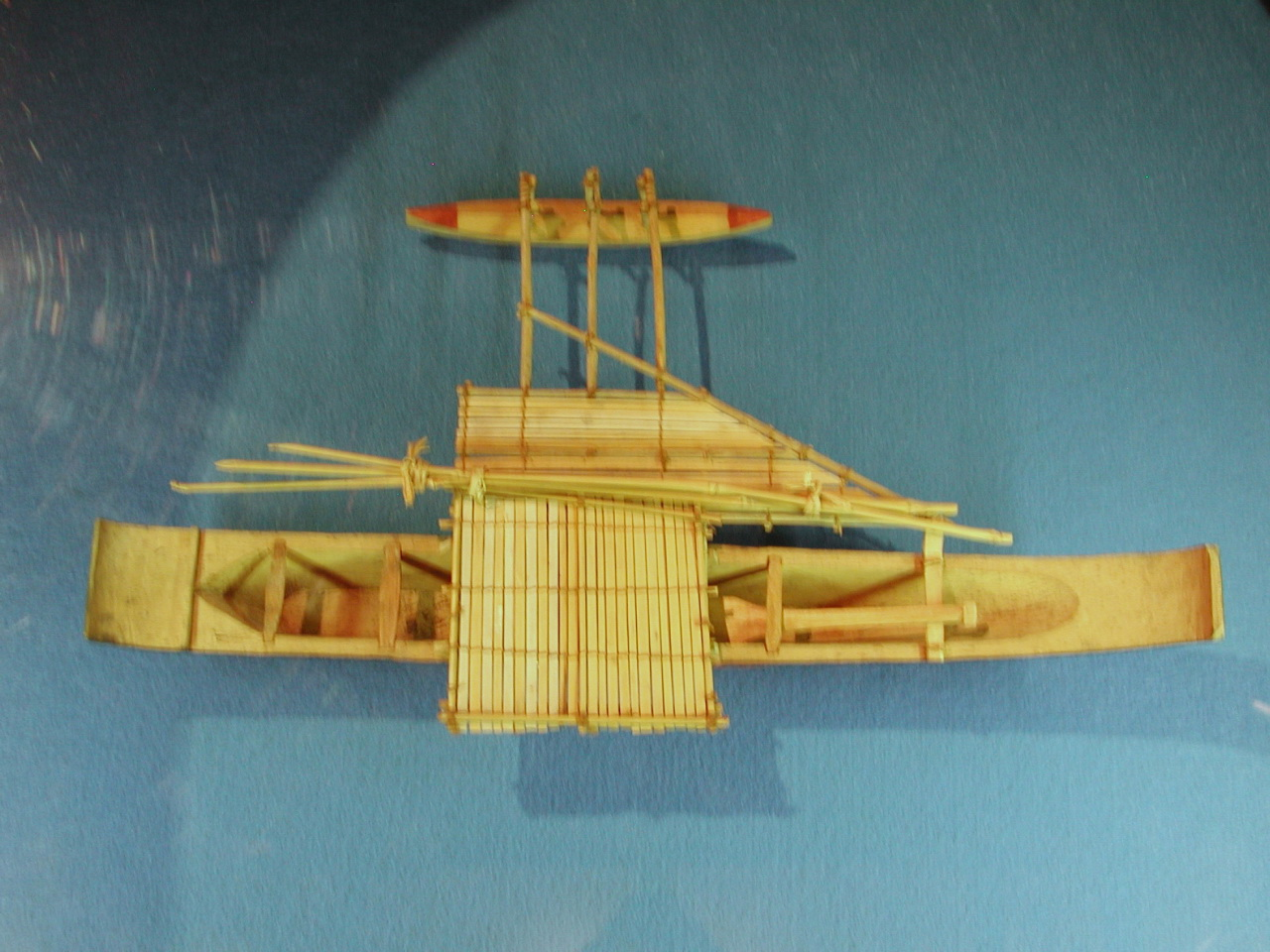 Micronesian canoe with pandanus sail and outriggers from Yap, Caroline Islands, Micronesia. Made from Plant (pandanus and others)